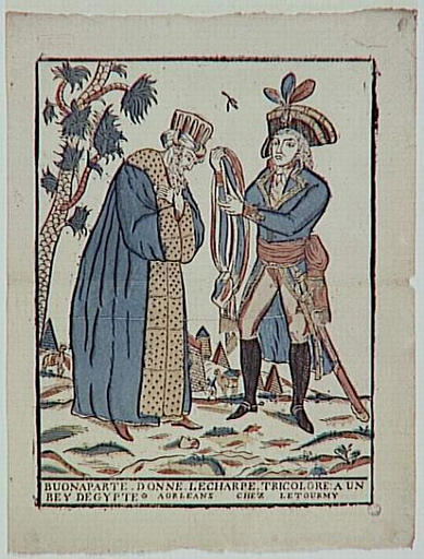 Napoleon presents an Egyptian Bey with a tricolor scarf